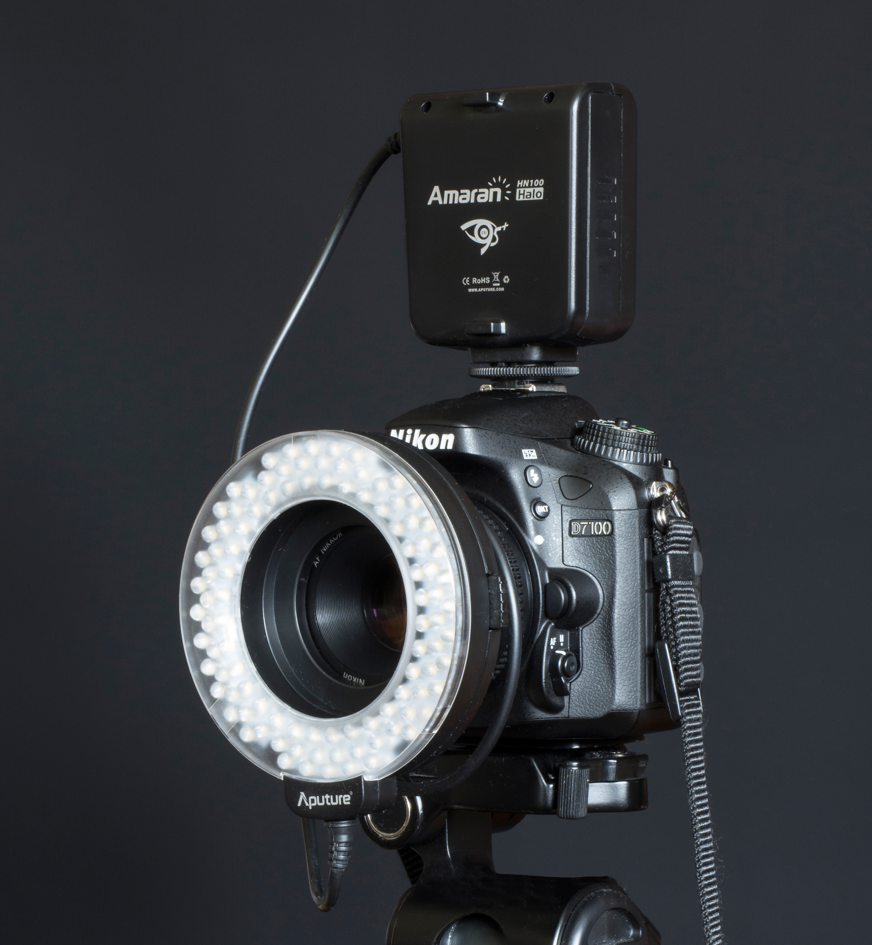 Nikon D7100 with Aputure HN100 ring flash